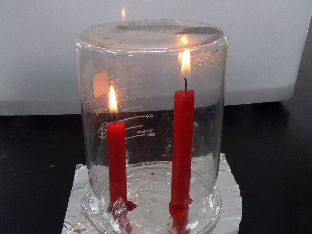 hot CO2 put off the higher candle first